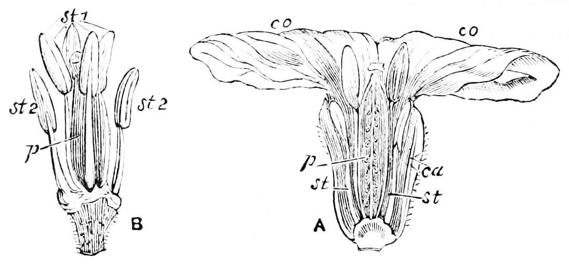 The wallflower